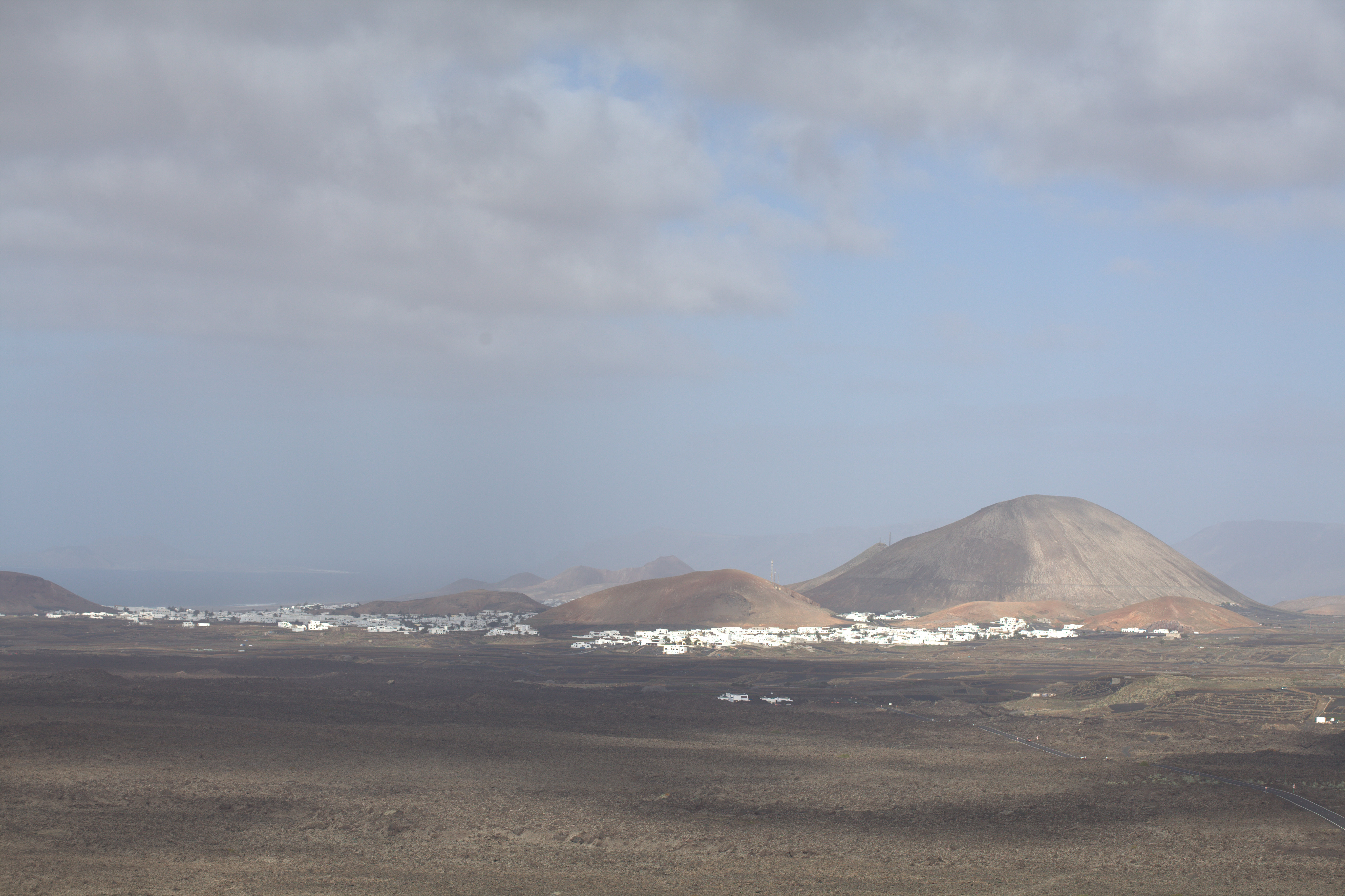 Photo taken on a walk between Yaiza and Tinajo through Parque Natural Los Volcanes on Lanzarote.